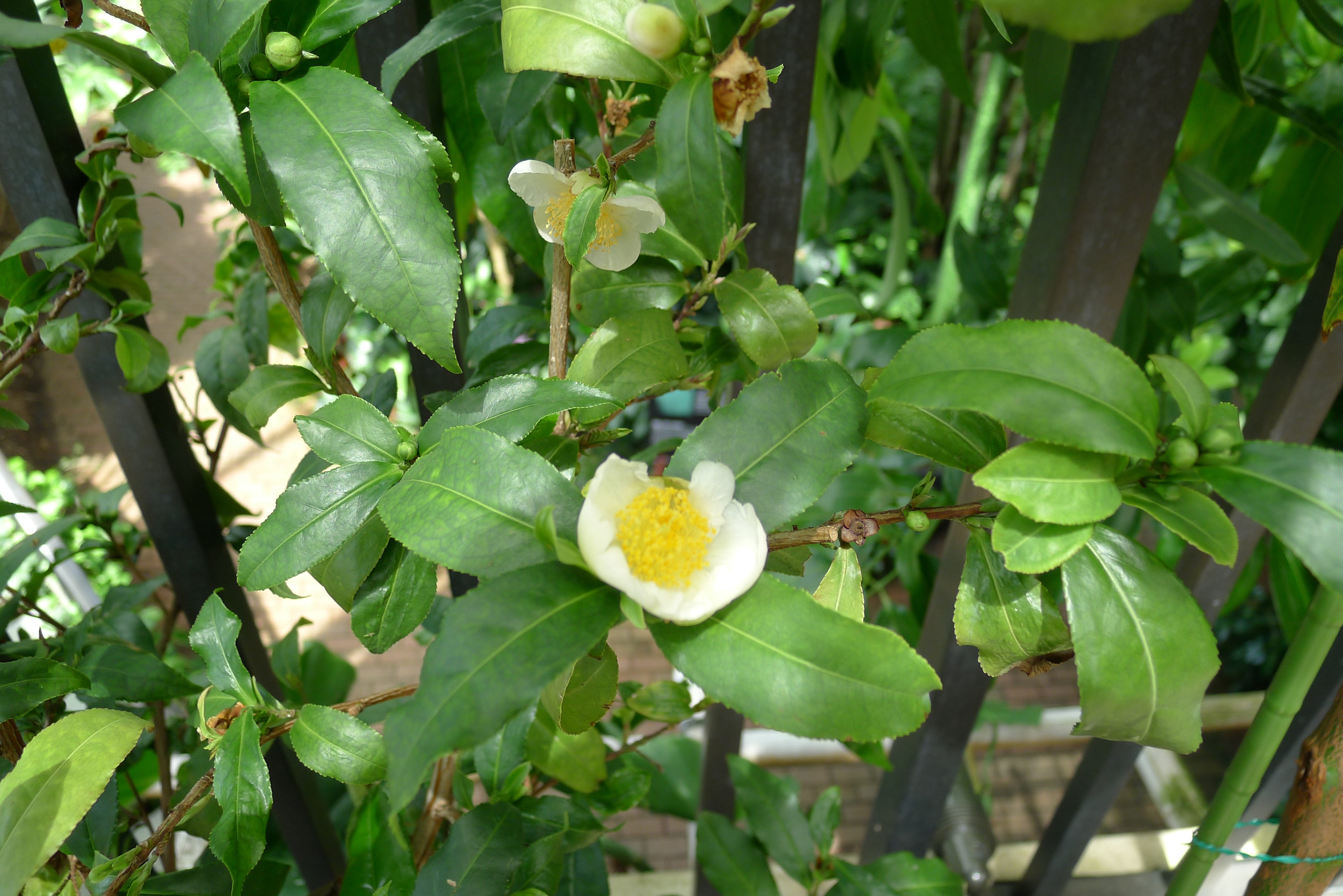 Camellia sinensis in the Boltz Conservatory of Olbrich Botanical Gardens in Madison, Wisconsin